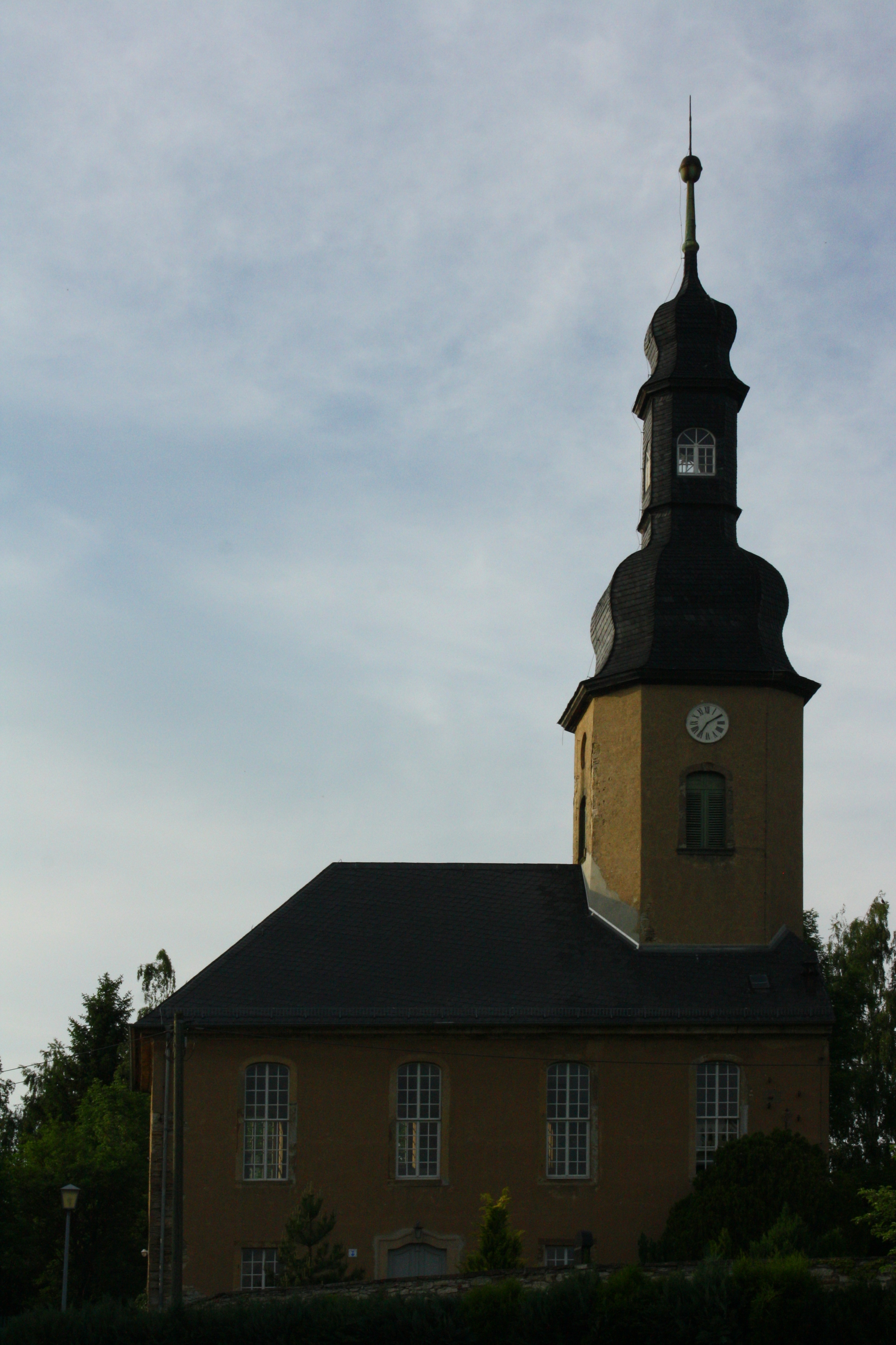 Church in Brahmenau-Groitschen near Gera/Thuringia